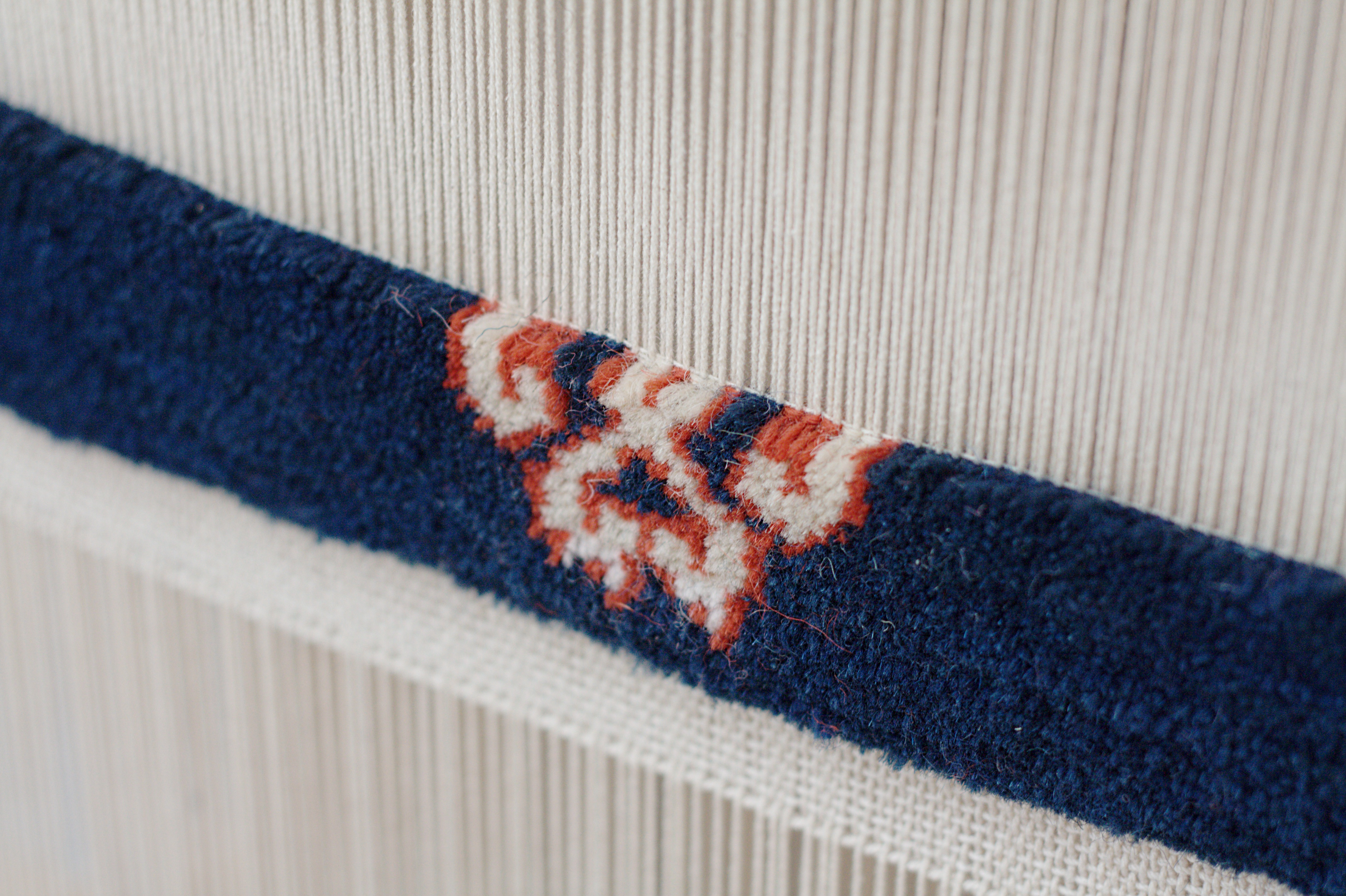 A traditional carpet/rug design in preparation on a carpet loom.